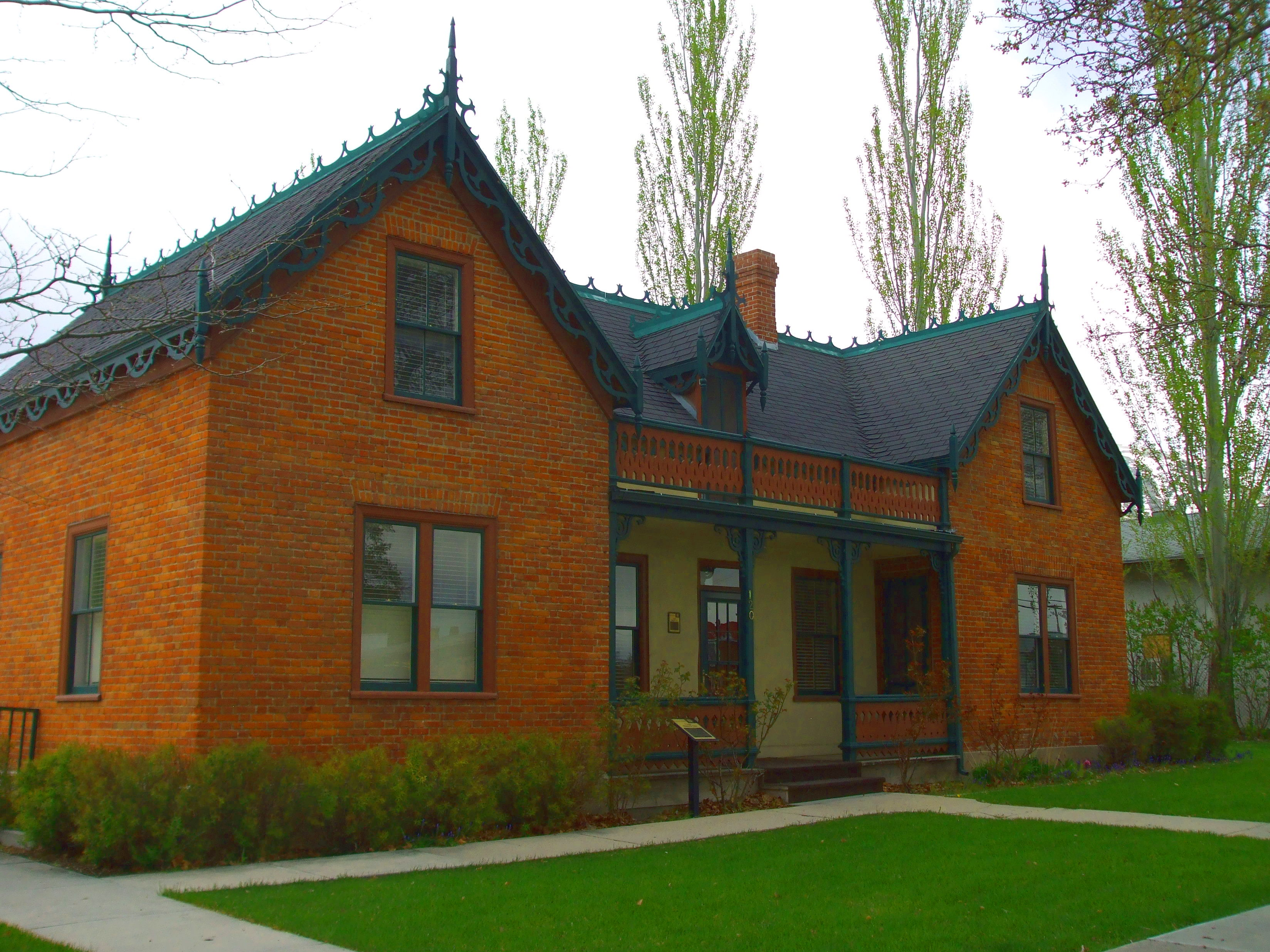 The Thompson-Hansen House, a historic home in Brigham City, Utah, United States.